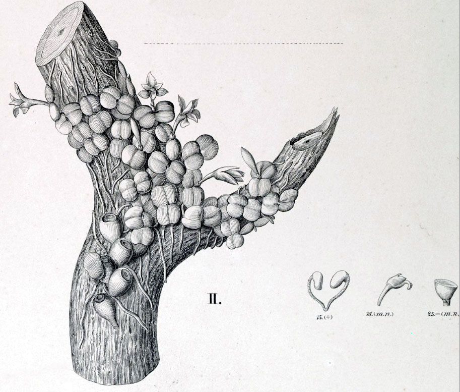 Line drawing of the orchid Constantia rupestris. After a painting by Barbosa Rodrigues, published 1898 in Vol. III, pt. 5, tab. 70 of Flora Brasiliensis as Sophronitis rupestris